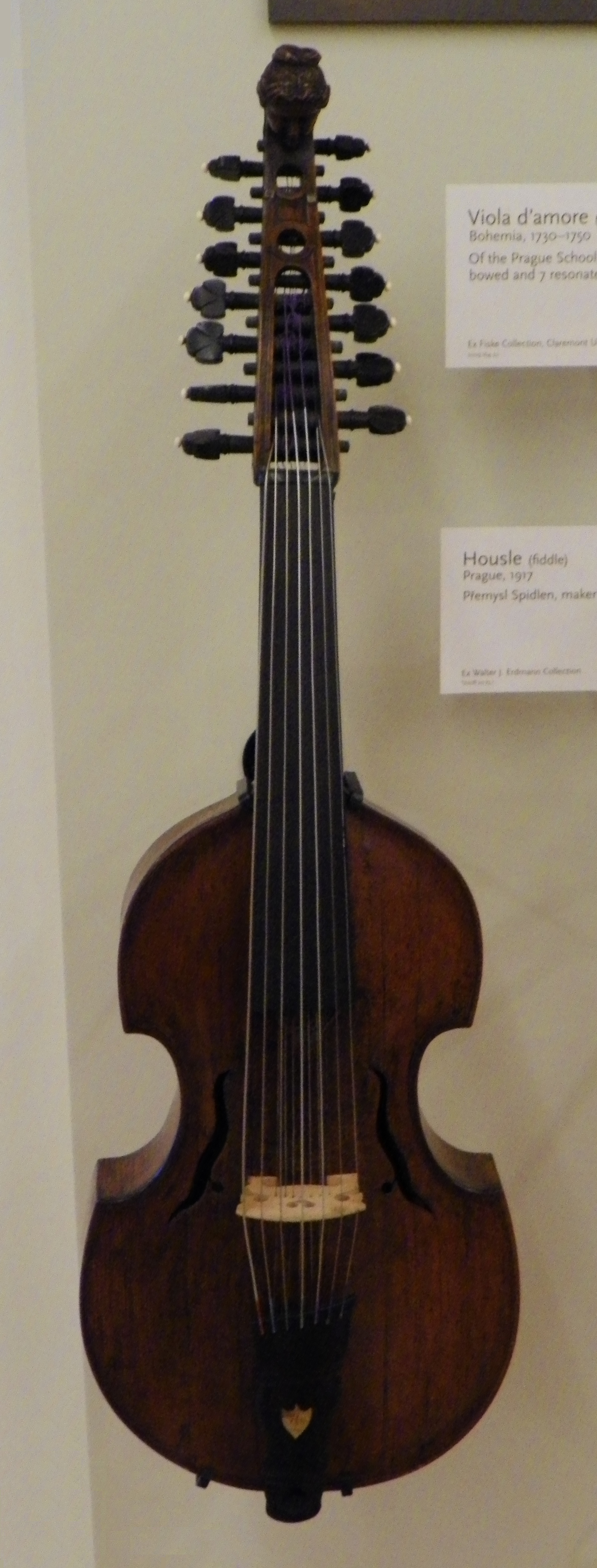 A viola d'amore, a member of the viol family with 7 played strings and an equal number of sympathetic strings Photograph of musical instruments taken at the Musical Instrument Museum (Phoenix) on 2011-04-26.